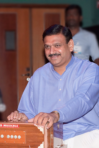 Sudhir Nayak profile